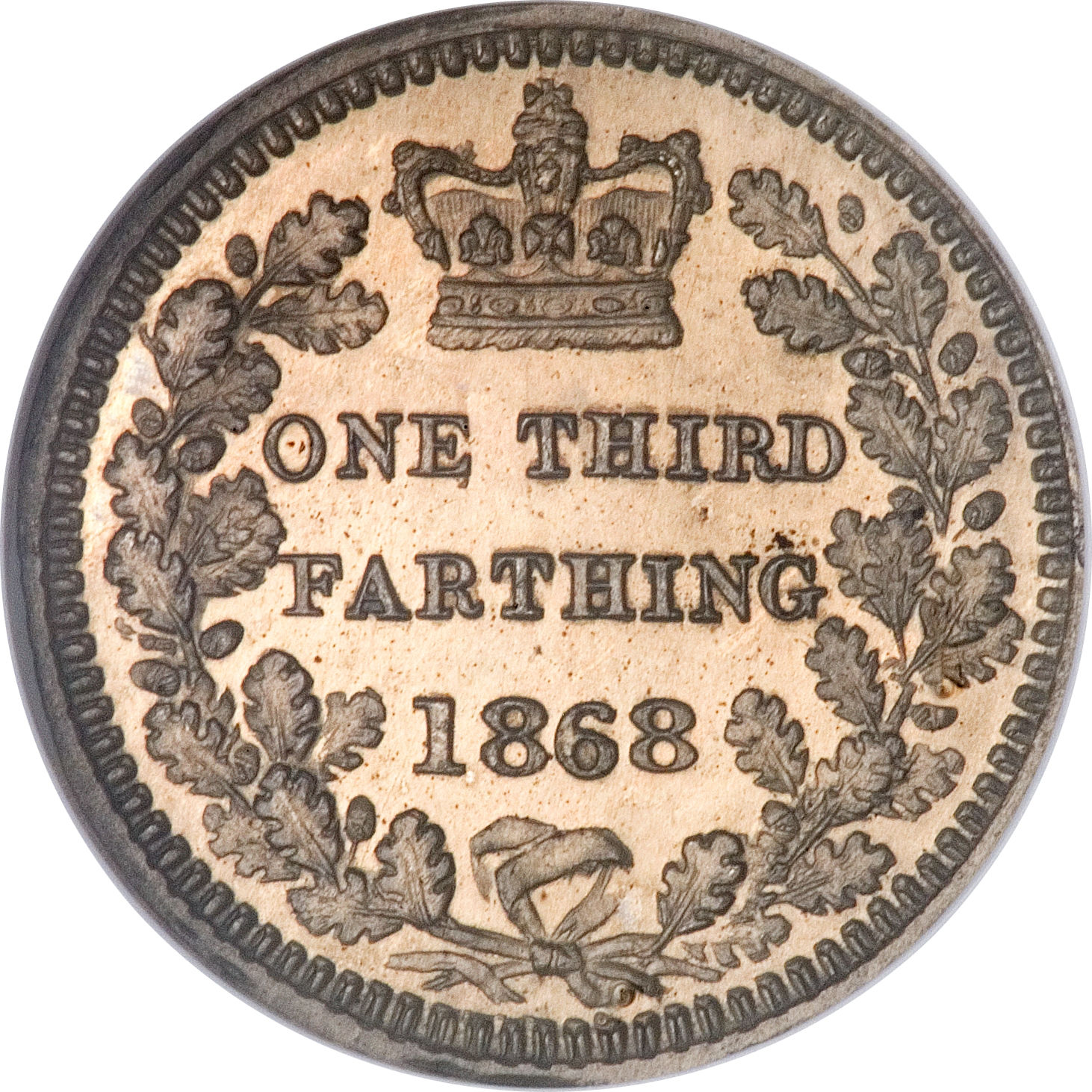 d